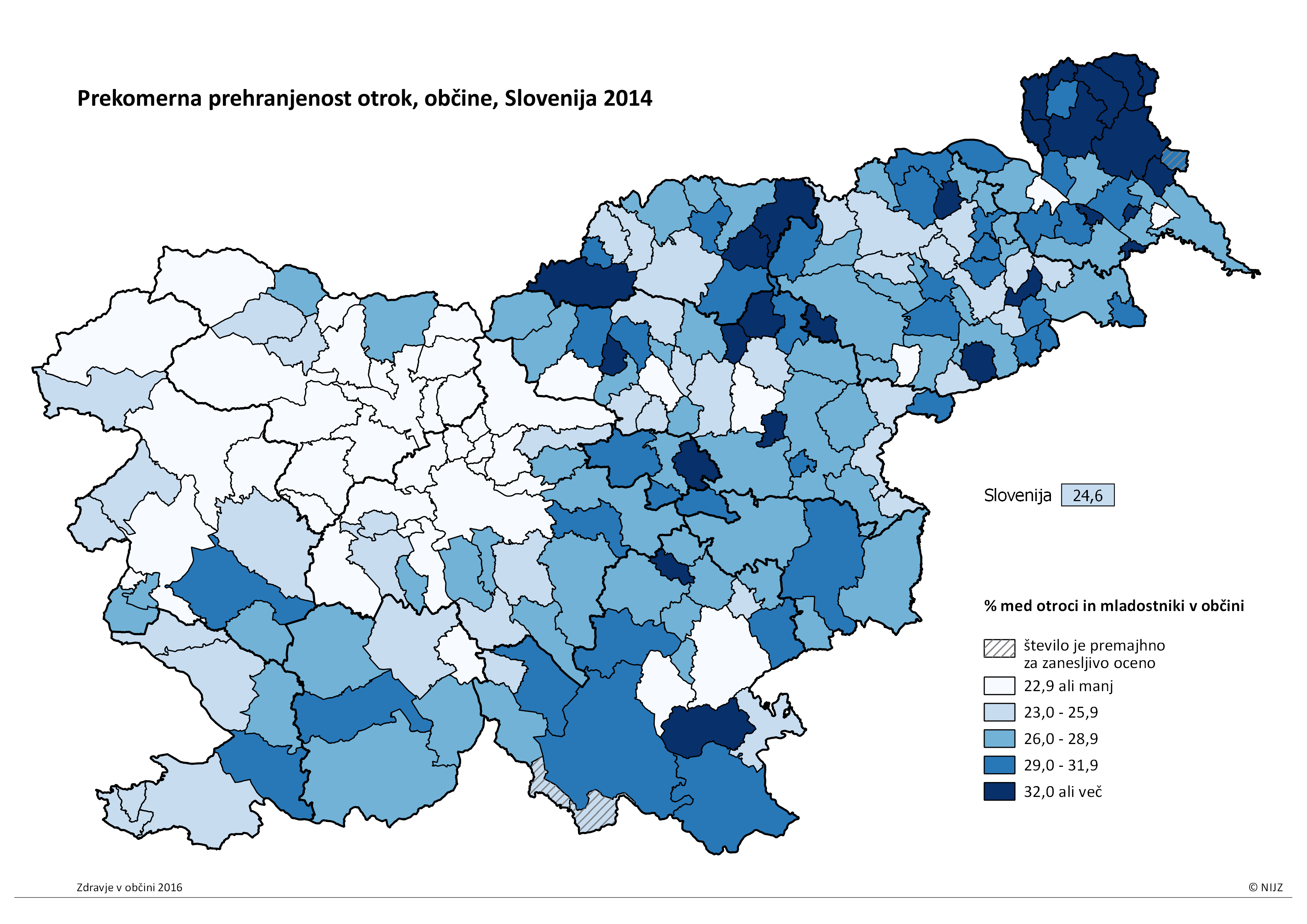 Weight above healthy level among children in Slovenia, by municipiality, 2014